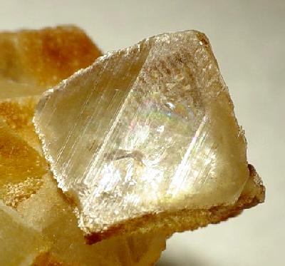 Prehnite Locality: Jeffrey mine (Jeffrey quarry; Johns-Manville mine), Asbestos, Les Sources RCM, Estrie, Québec, Canada (Locality at ) Size: miniature, 4.3 x 4 x 1.5 cm Prehnite (CRYSTALS!) This outstanding Prehnite specimen is terrific for any locality due to the sharpness and individuality of the stereotypical crystals which is actually quite rare in nature...prehnite seems to want to do everythign BUT crystallize decently for us! I have rarely seen such specimens, and this famous and classic locality is now closed so more will not be forthcoming The water-clear crystals have some perfect mirror-like luster on some surfaces, allowing the admirer a view them as if looking down into a clear pool of water. The other surfaces are preferentially coated, which gives the overall specimen nice contrast and balance. If you did not know better, you might easily misidentify this as a topaz! 4.3 x 4 x 1.5 cm